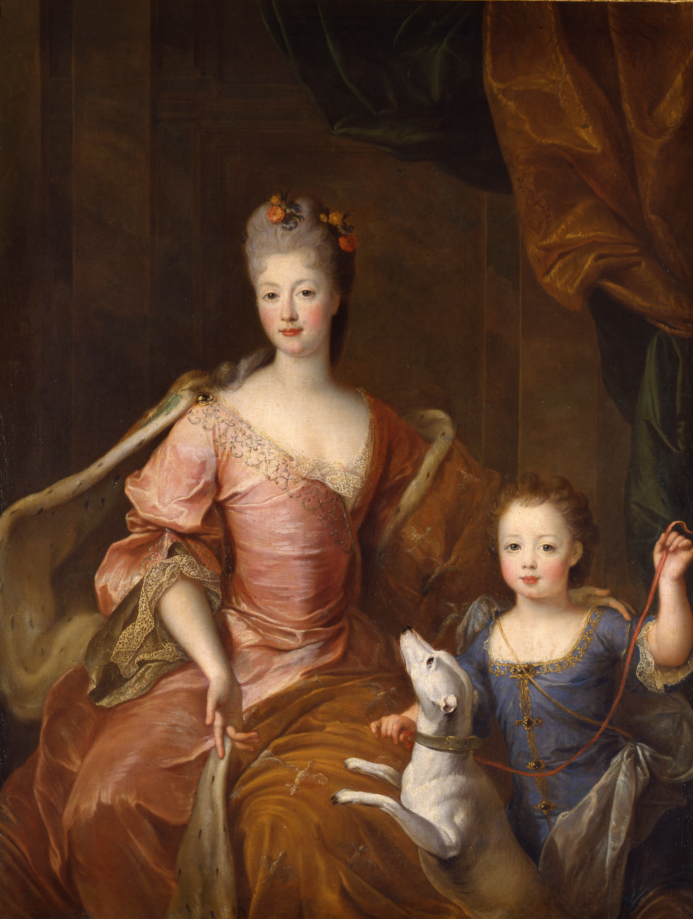 Élisabeth Charlotte d'Orléans (1676-1744) with her oldest son, Louis de Lorraine (1704-1711)